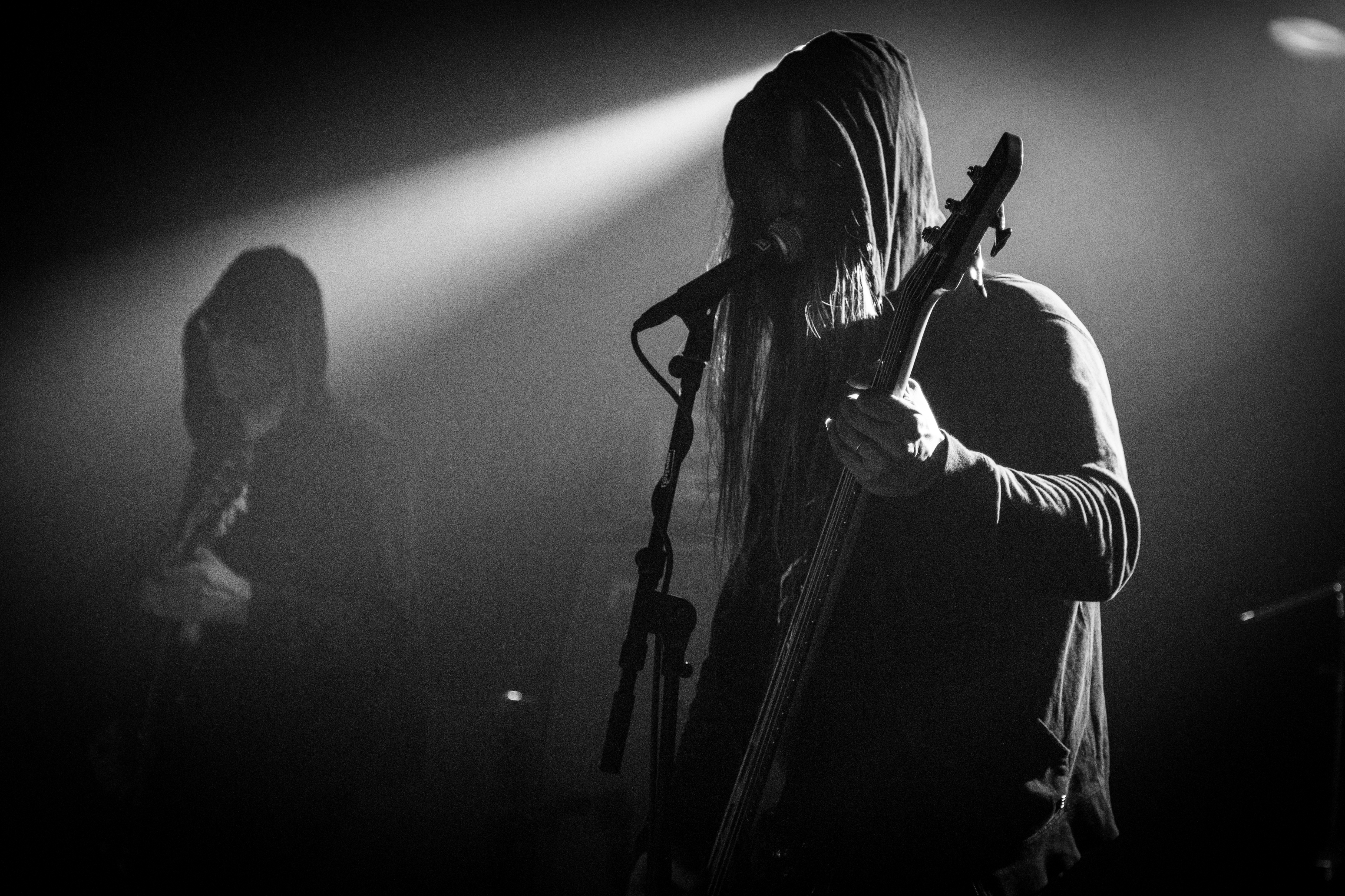 Hooded Menace performing live at Metal Meeting 2015, Eindhoven, Netherlands